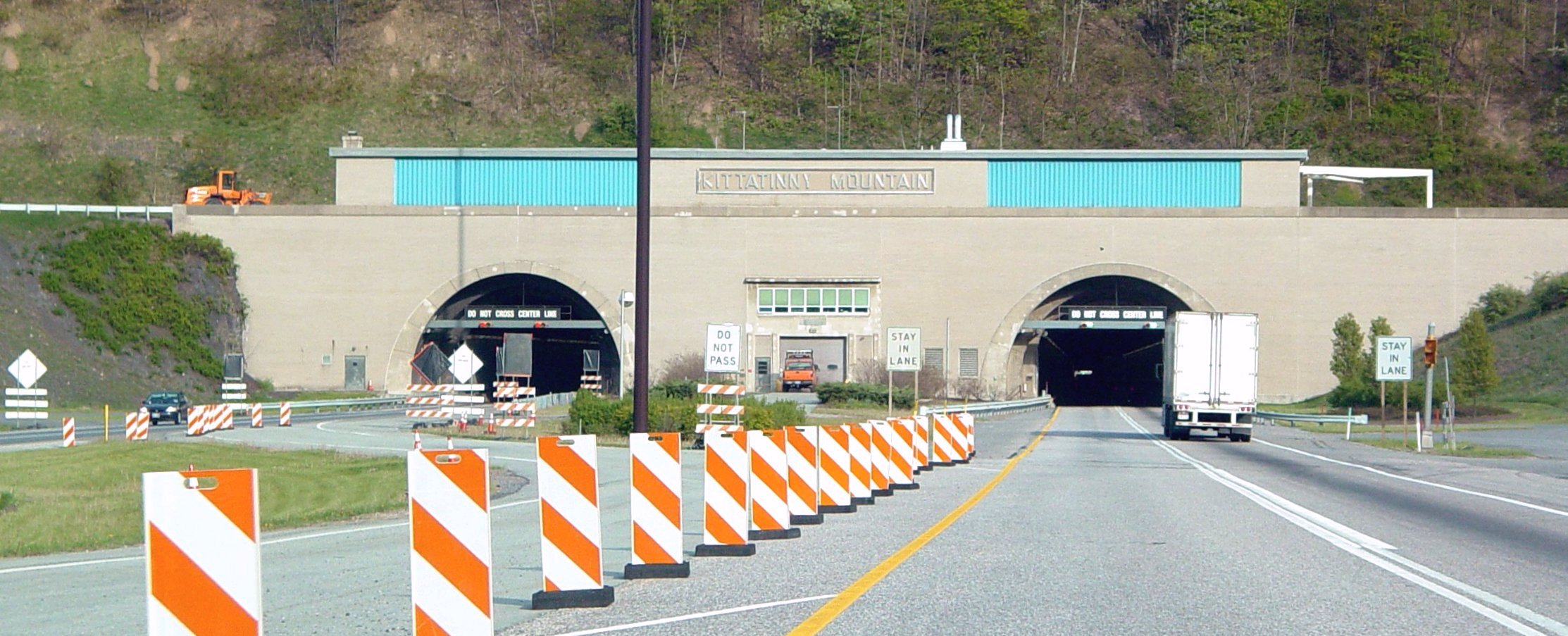 The western portal of the Kittatinny Mountain Tunnel, one of four active tunnels on the Pennsylvania Turnpike. Photo taken May 2, 2006 by Ben Schumin.